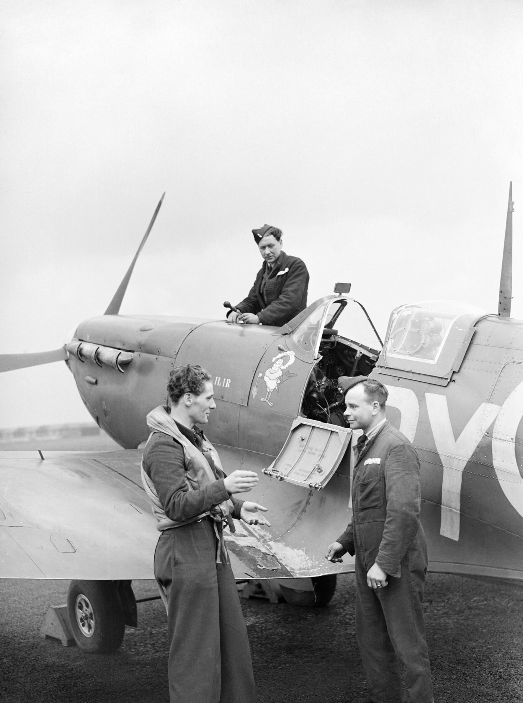 A Czech Spitfire pilot Karel Vykoukal of No. 313 Squadron in conversation with his rigger and fitter at Hornchurch, 8 April 1942. A Czech Spitfire pilot Karel Vykoukal of No 313 Squadron in conversation with his rigger and fitter at Hornchurch, 8 April 1942. His aircraft is BL581 Moesi-llir, a Mk VB presented by the Netherlands East Indies Fund.